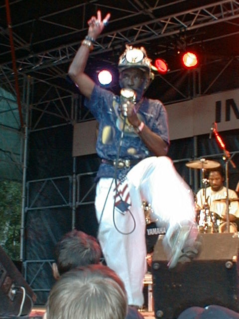 Lee "Scratch" Perry live